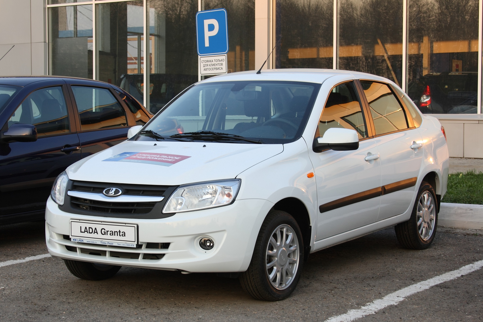 Lada Granta in Tomsk, Russia